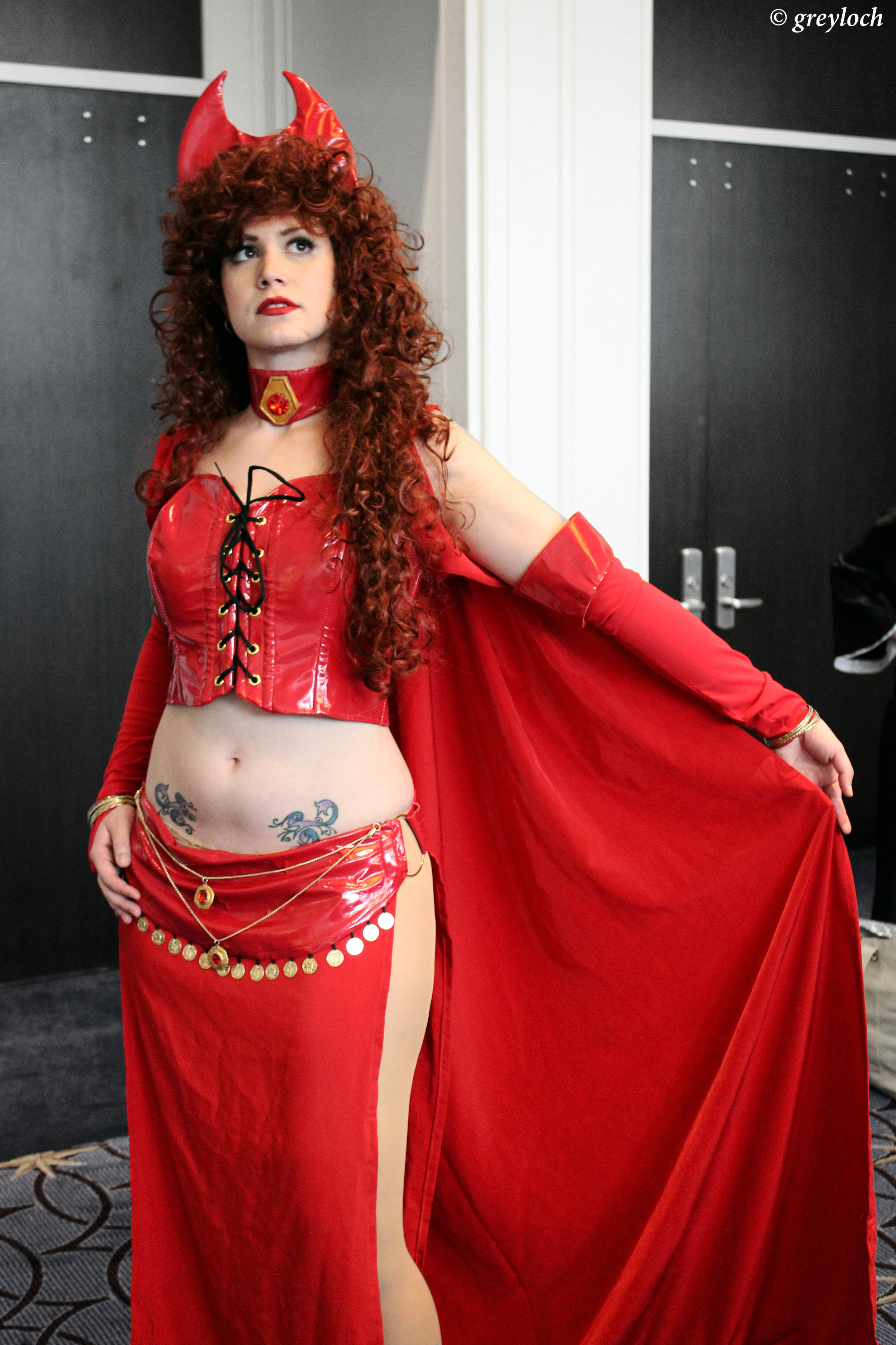 Cosplay of the Scarlet Witch